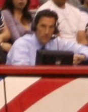 Mike Smith calls a Clippers game in 2011.